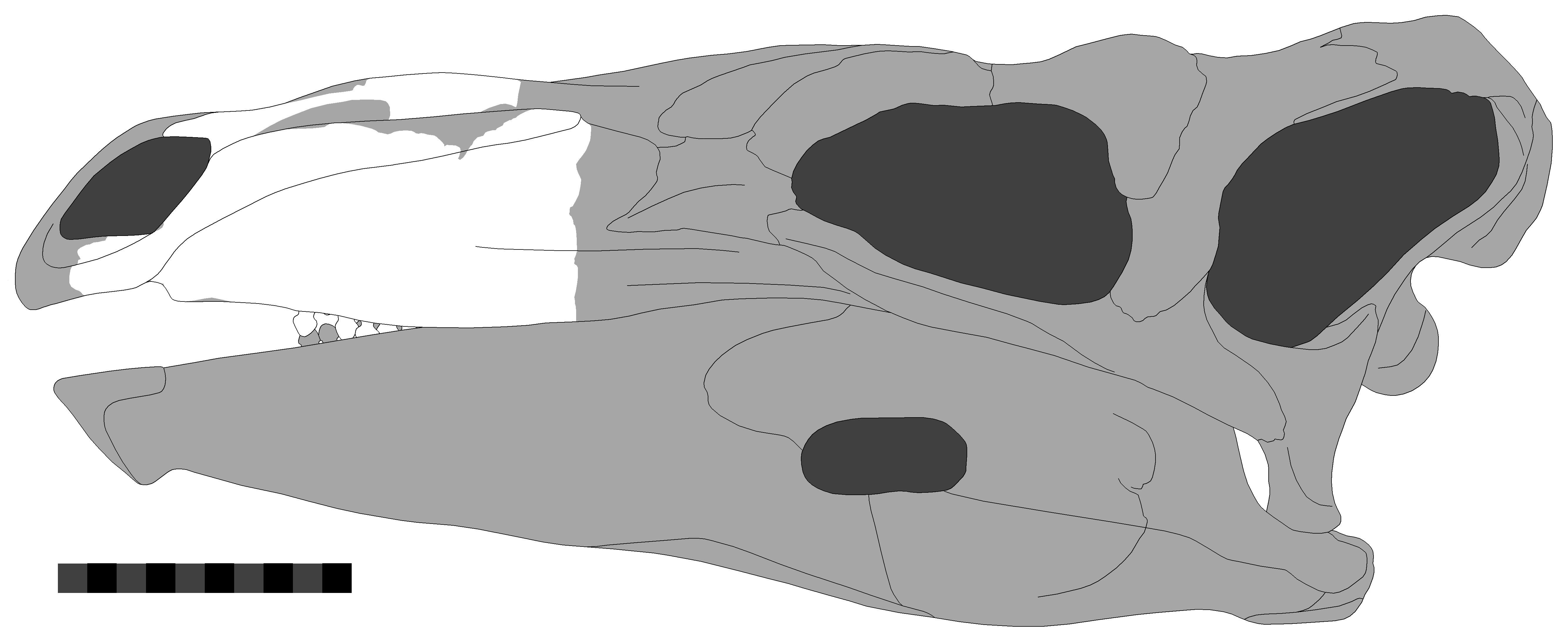 Reconstructed skull of Paranthodon africanus (Broom, 1912) Nopcsa, 1929. This skull reconstruction is based upon the figures in Galton & Coombs (1981), and Raven & Maidment (2018) with the rear of the skull and lower jaw based upon Stegosaurus stenops USNM 4934. White material is known, based upon BMNH 47337, the holotype front portion of jaw, BMNH 47338, a matrix including some impressions and teeth, and BMNH 49992, including teeth. Scale bar is 10cm. References: Broom, R. (1912). "Observations on some specimens of South African fossil reptiles preserved in the British Museum". Transactions of the Royal Society of South Africa 2: 19–25. Nopsca, F. (1929). "Dinosaurierreste aus Siebenburgen V. Geologica Hungarica. Series Palaeontologica". Fasciculus 4: 1–76 Galton, P.M.; Coombs, W.P. Jr. (1981). "Paranthodon africanus (broom) a stegosaurian dinosaur from the Lower Cretaceous of South Africa". Geobios 14(3): 299–309. Raven, T.J.; Maidment, S.C.R. (2018). "The systematic position of the enigmatic thyreophoran dinosaur Paranthodon africanus, and the use of basal exemplifiers in phylogenetic analysis". PeerJ 6: e4529.